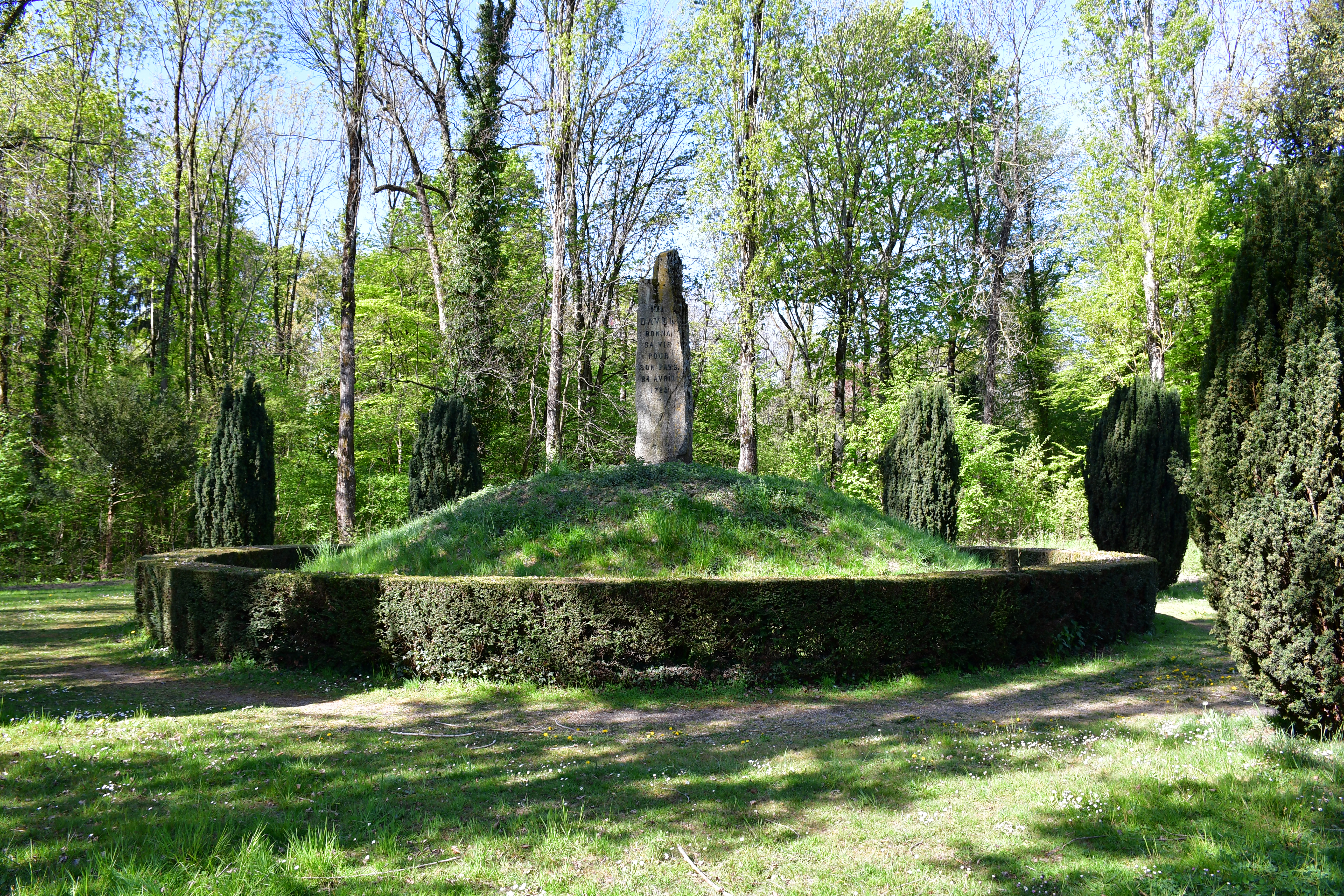 Monument to Abraham Davel, located on the place where is was put to death, in Vidy (lausanne, Switzerland).